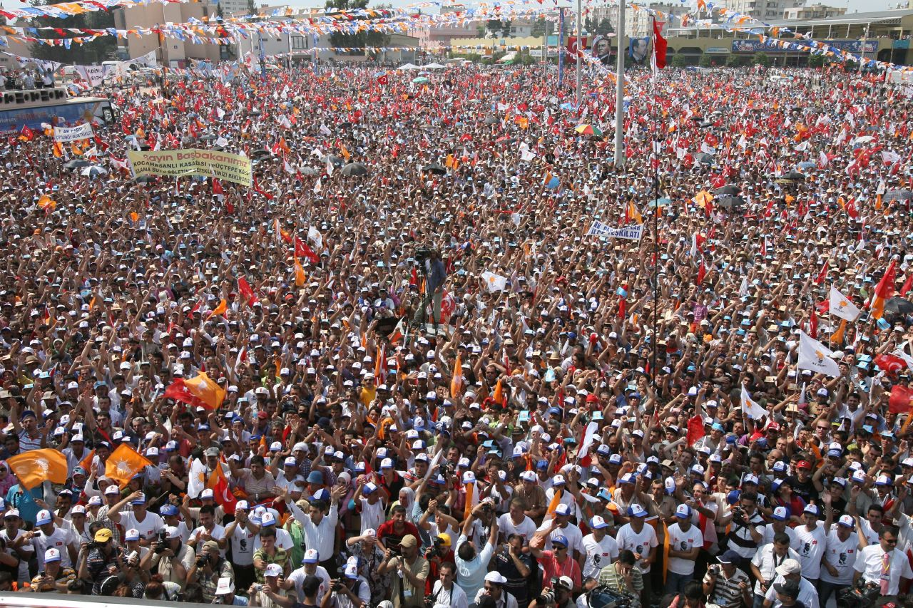 Miting of AKP